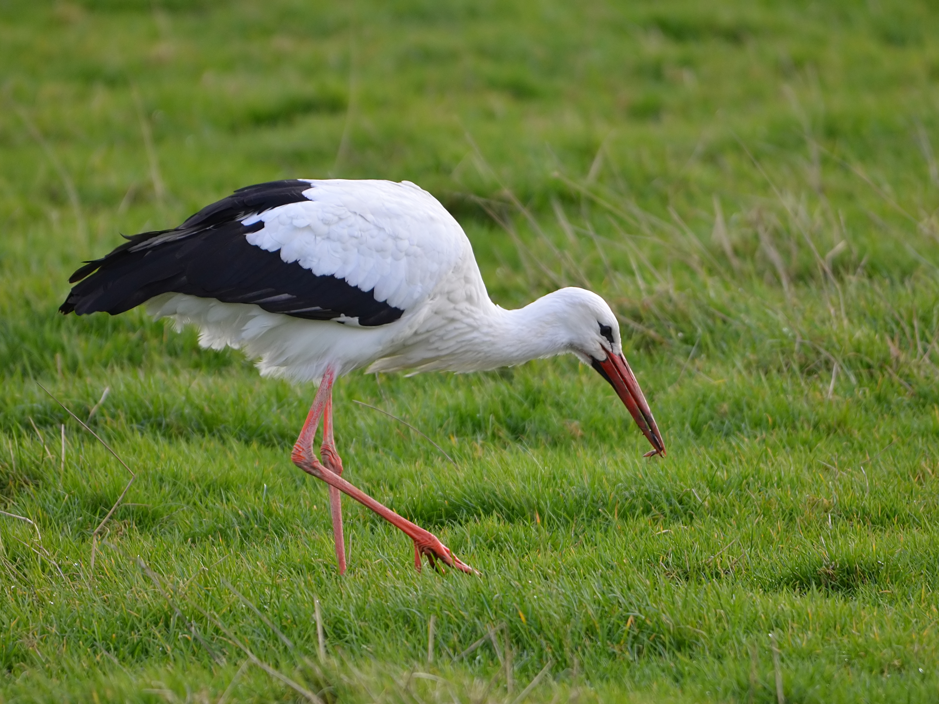 White Stork at the Dutch-Belgian border near Sluis (Netherlands), Belgium